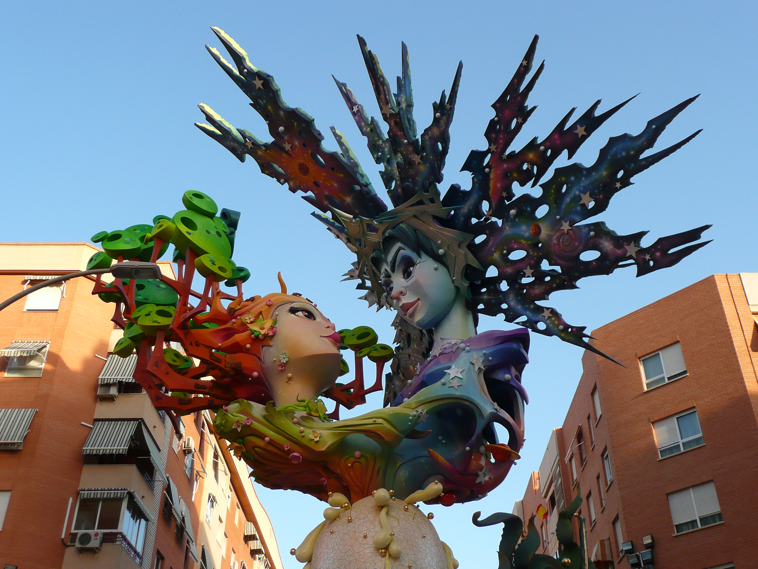 Hogueras 2008 - Gran Via La Ceramica Hogueras 2008 set by Fernando Pastor at Flickr